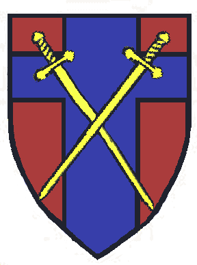 Sleeve patch of the British 21st Army Group.